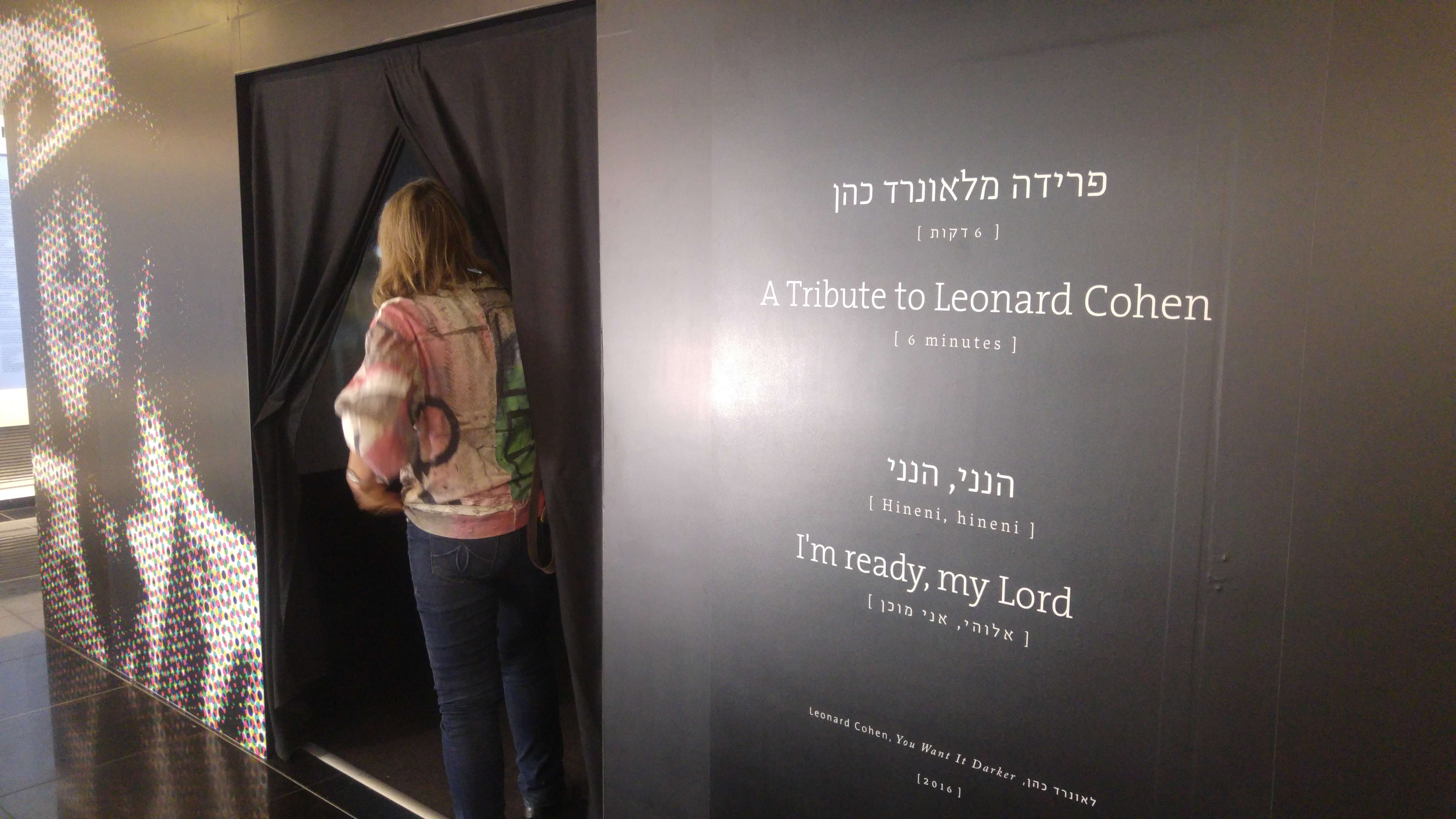 Hineni, hineni: A tribute to Leonard Cohen at Beth Hatefutsoth on the first anniversary of his death